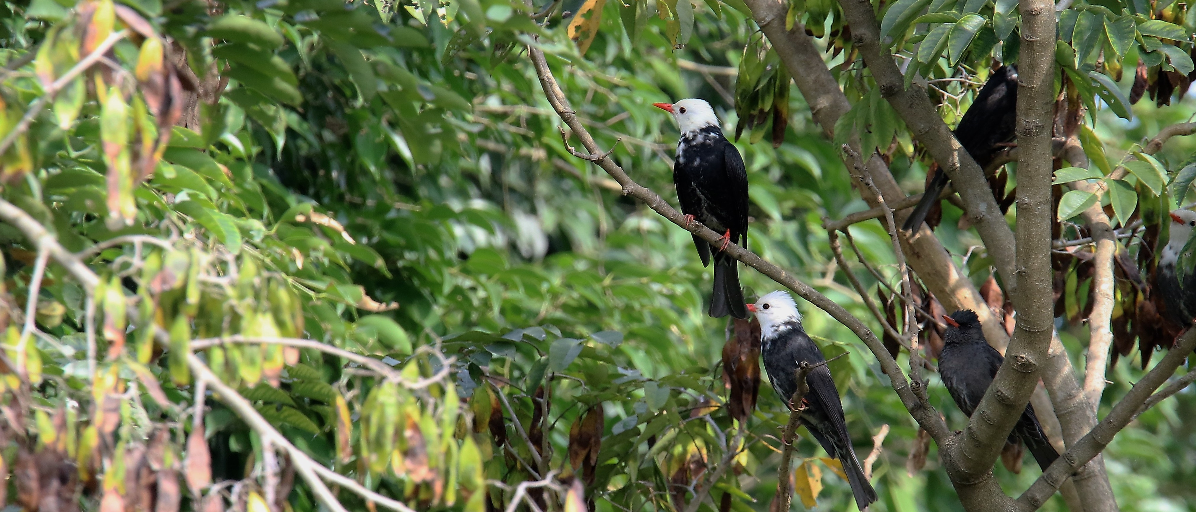 And some also occur in white-headed morphs